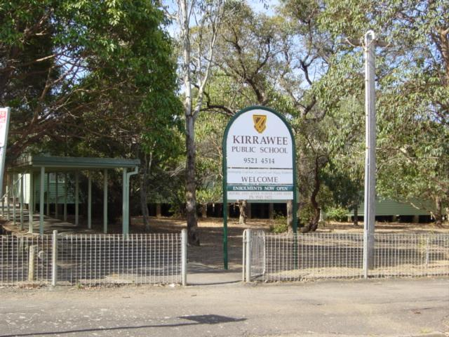 Kirrawee Public School, Bath Road North